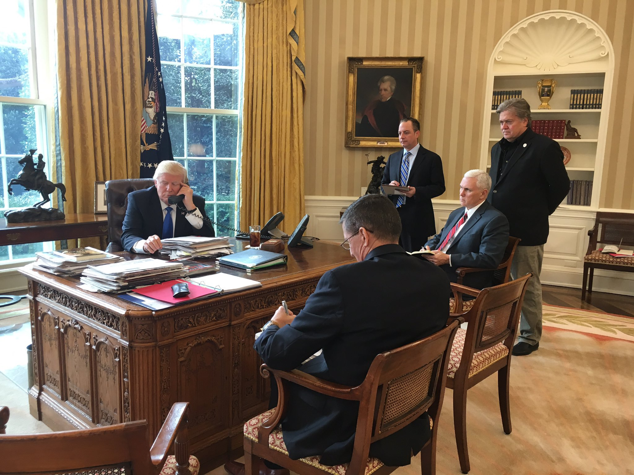 After speaking with Chancellor Merkel for 45 minutes @POTUS is now onto his 3rd of 5 head of government calls, speaking w Russian Pres Putin